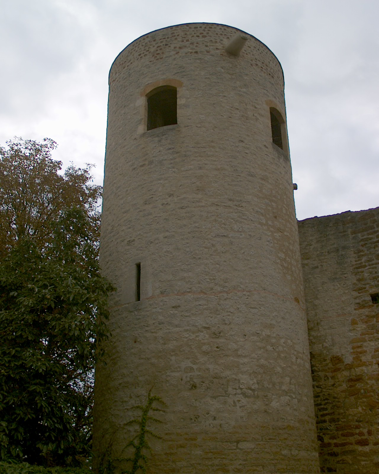 The round tower of Trevoux castel - Ain - France